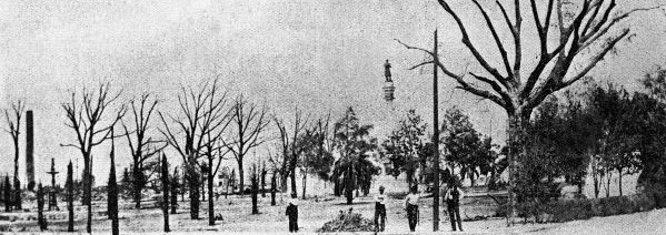 View of Hemming Park in 1901 after the Great Fire